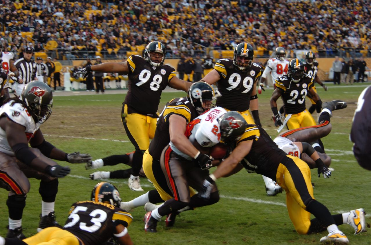 The Pittsburgh Steelers defense tackles a Tampa Bay Buccaneers ball carrier - October 3, 2006